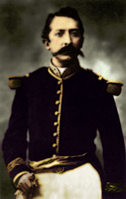 Young Rafael reyes,future president of Colombia